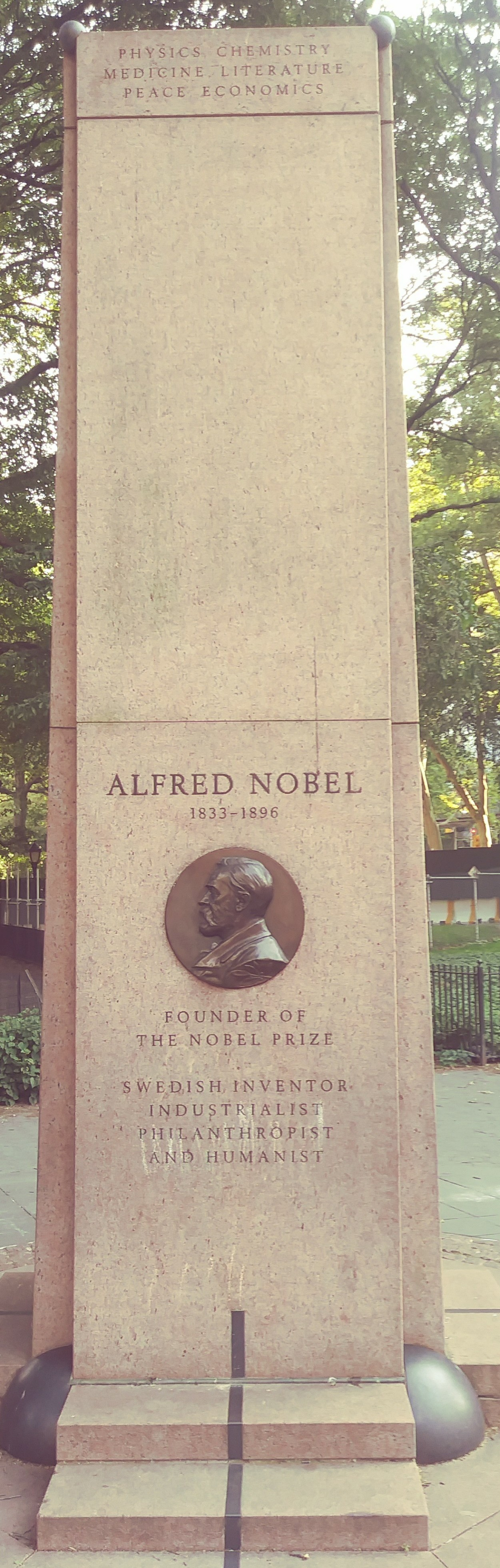 Nobel Monument in NYC: north face with name & medallion of Alfred Nobel